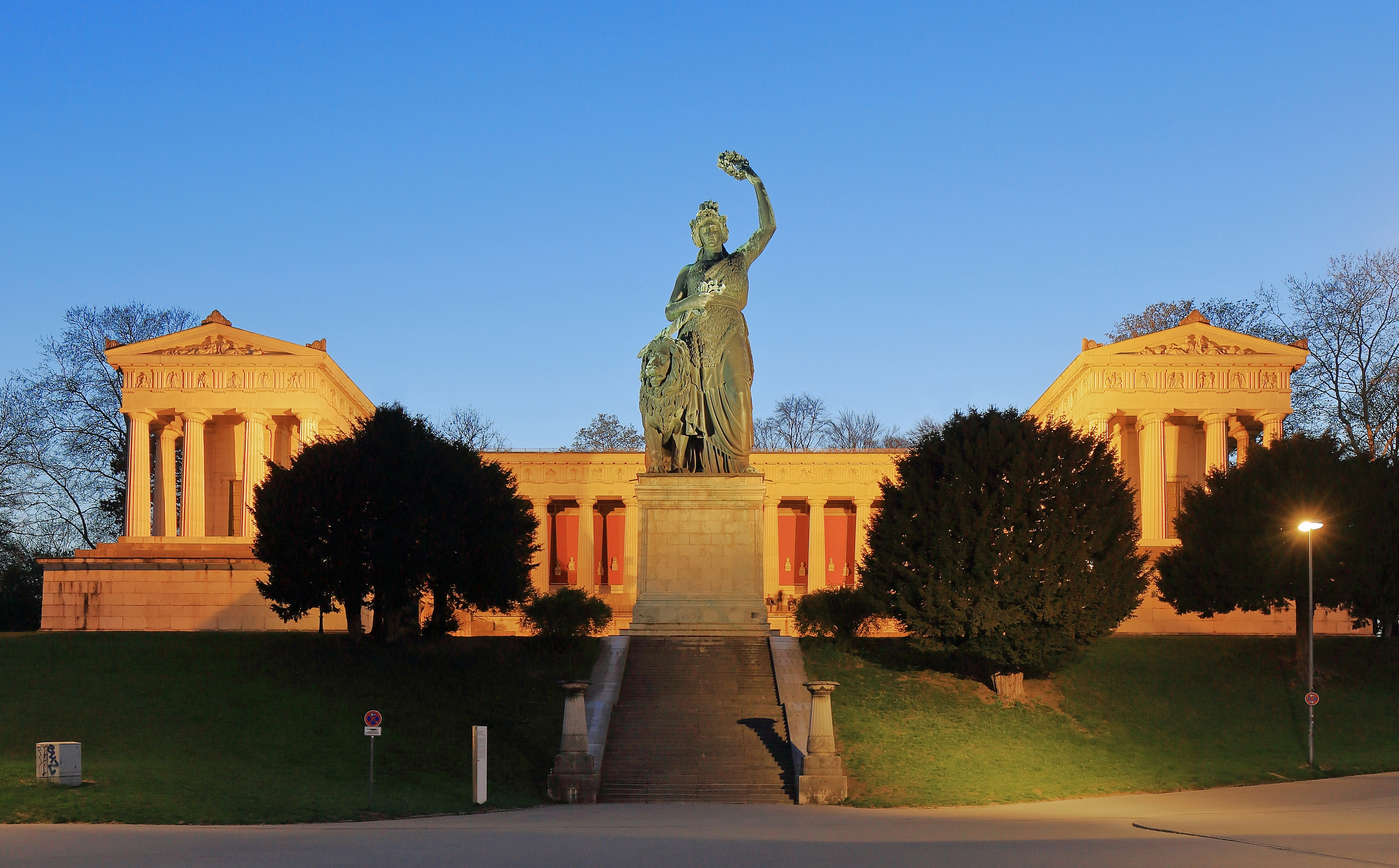 The Ruhmeshalle ("Hall of fame"), built from 1843 - 1853 by Leo von Klenze, is the building in the background of the Bavaria statue in Munich.